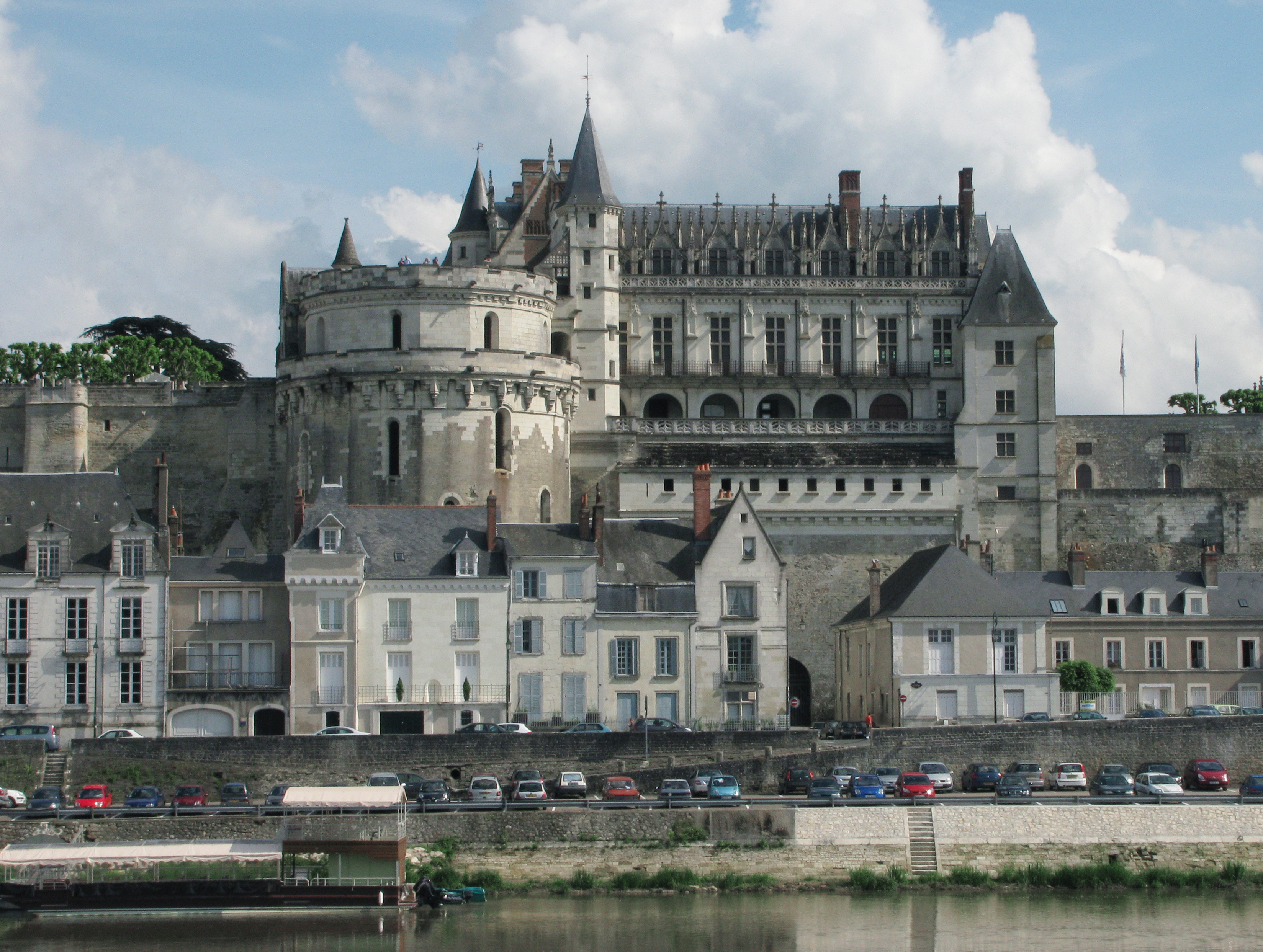 Amboise Castle in the Loire town of Amboise in the department Indre-et-Loire/Frankreich.